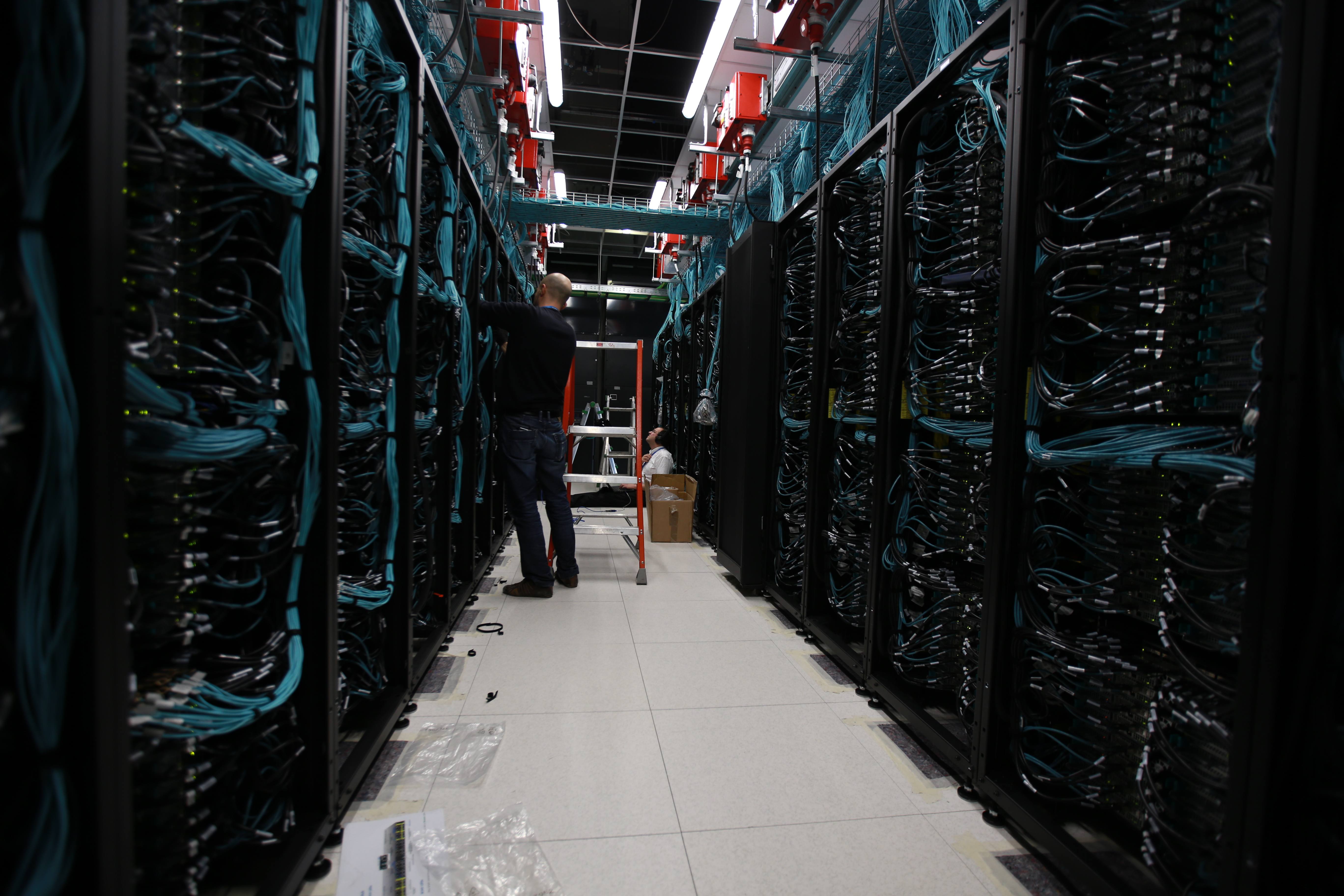 Installation of supercomputer MARCONI the new Tier-0 system, co-designed by CINECA and based on the Lenovo NeXtScale platform.